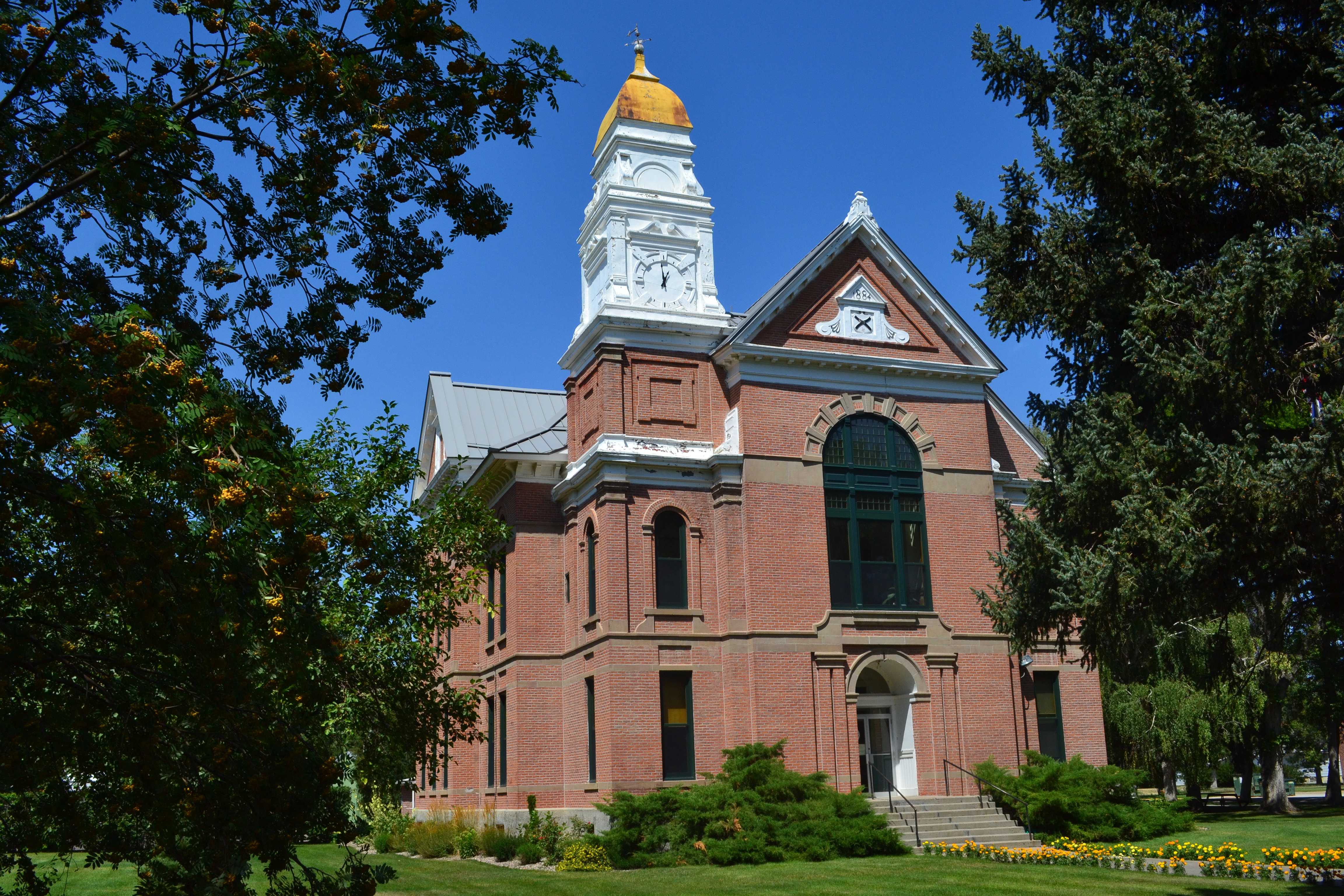 Choteau County Courthouse in Fort Benton, Montana